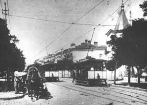 Trams in Sevastopol